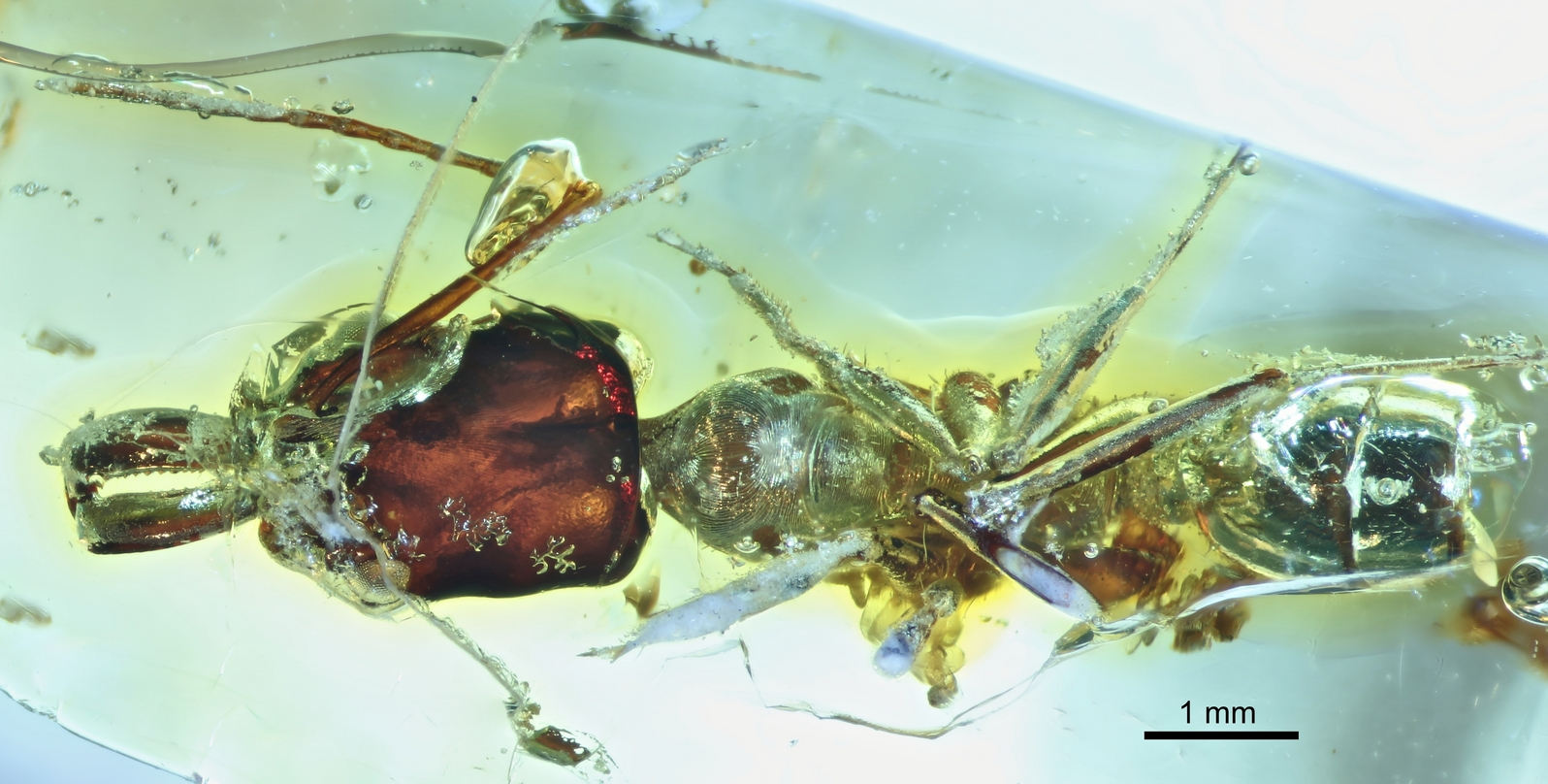 Dorsal view of the Odontomachus pseudobauri holotype worker. Dominican amber, Burdigalian; Dominican Republic, Hispaniola British Museum of Natural History, specimen BMNHP-II32